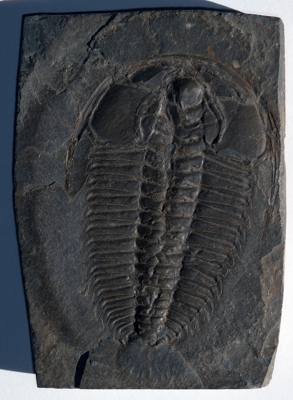 Photograph of a fossil trilobite Redlichia chinensis taken by Dlloyd. Specimen is from the Cambrian and measures 7.5 cm (3") in length, on matrix. Locality - Yung Shan, Hunan Province, China.